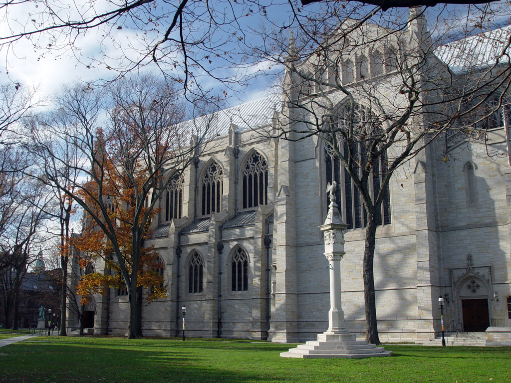 Exterior of the Princeton University Chapel.